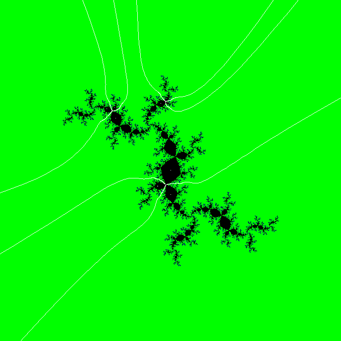 Julia set for fc(z)=z^2 + c for c= -0.031110+0.79111*i with external rays